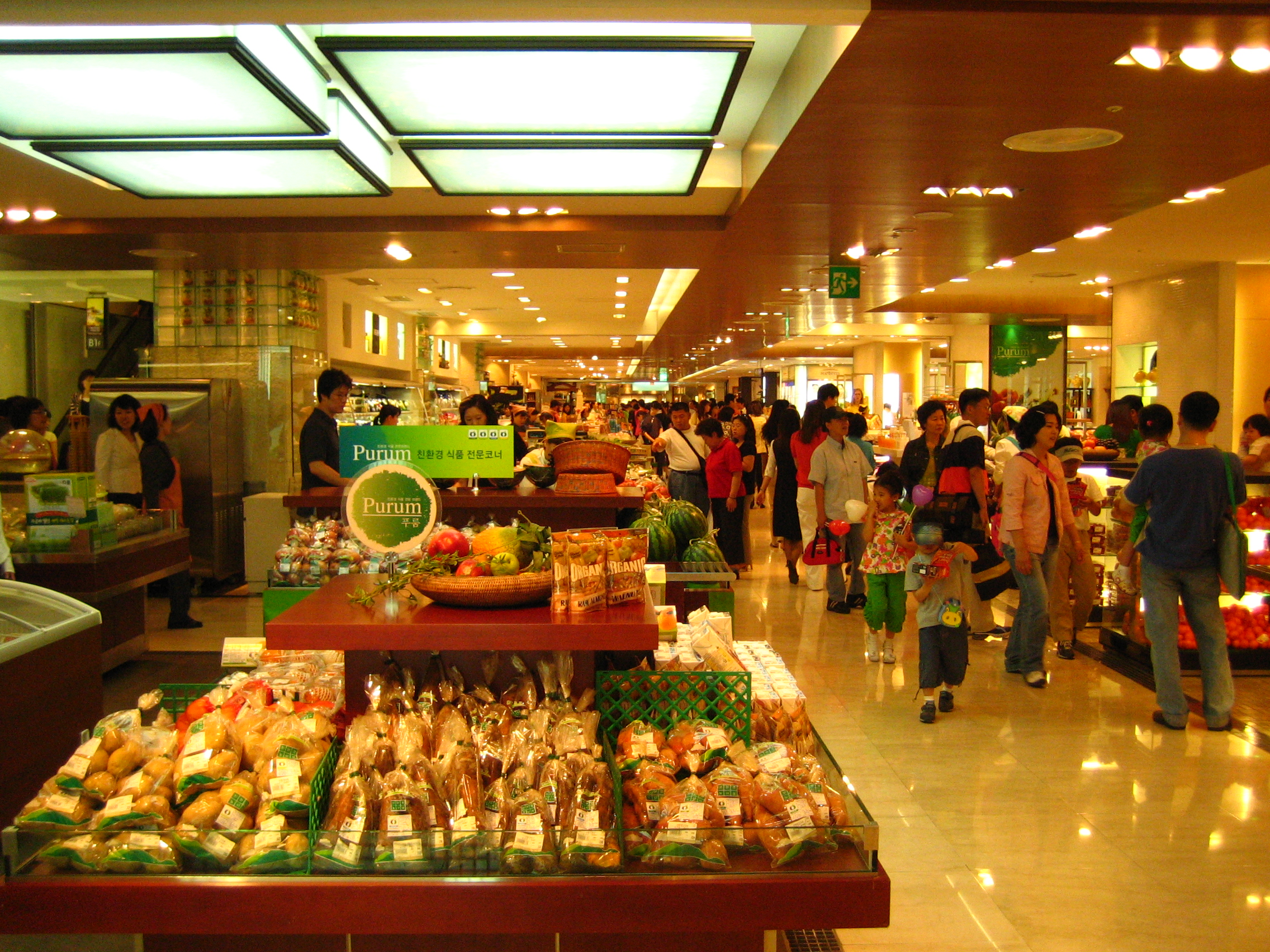 "Depachika" at Lotte Department Store